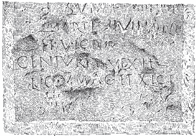 Roman inscription near Bettir, Iudaea